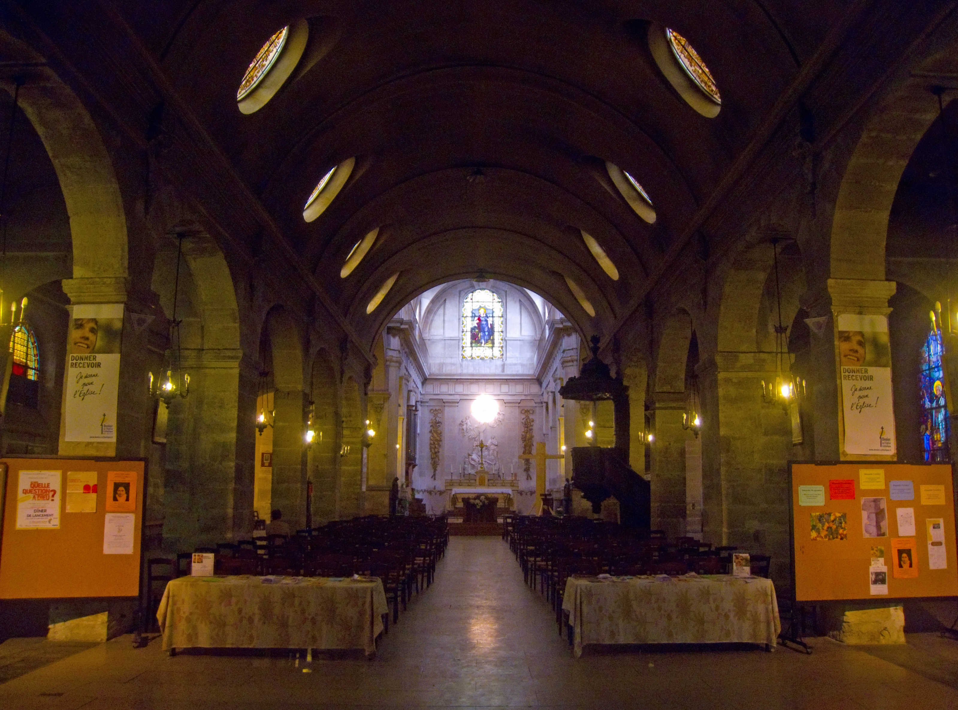 Église Sainte-Marguerite, Paris XIe arrondissement, France.